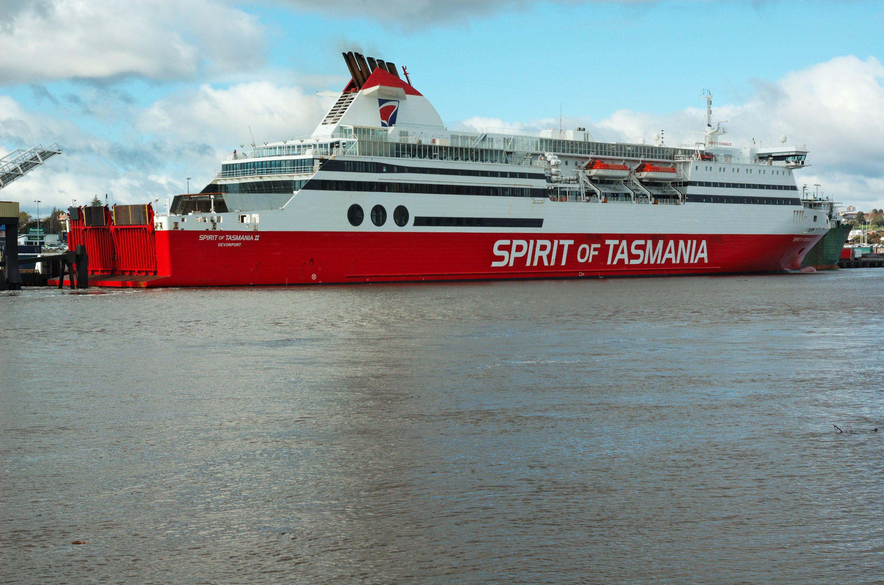 Spirit of Tasmania II on the Mersey in Devonport, Tasmania.